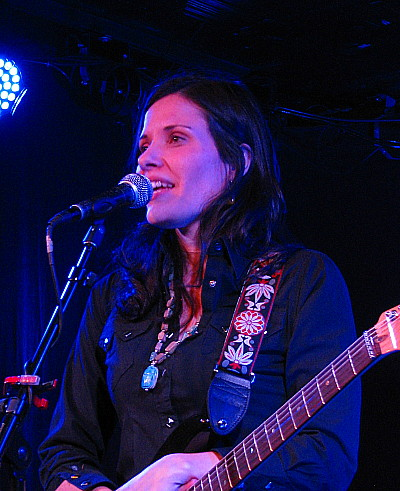 Shannon McNally (version 2) on stage at The Saint in Asbury Park, NJ on May 18, 2013. Photo by LHCollins.